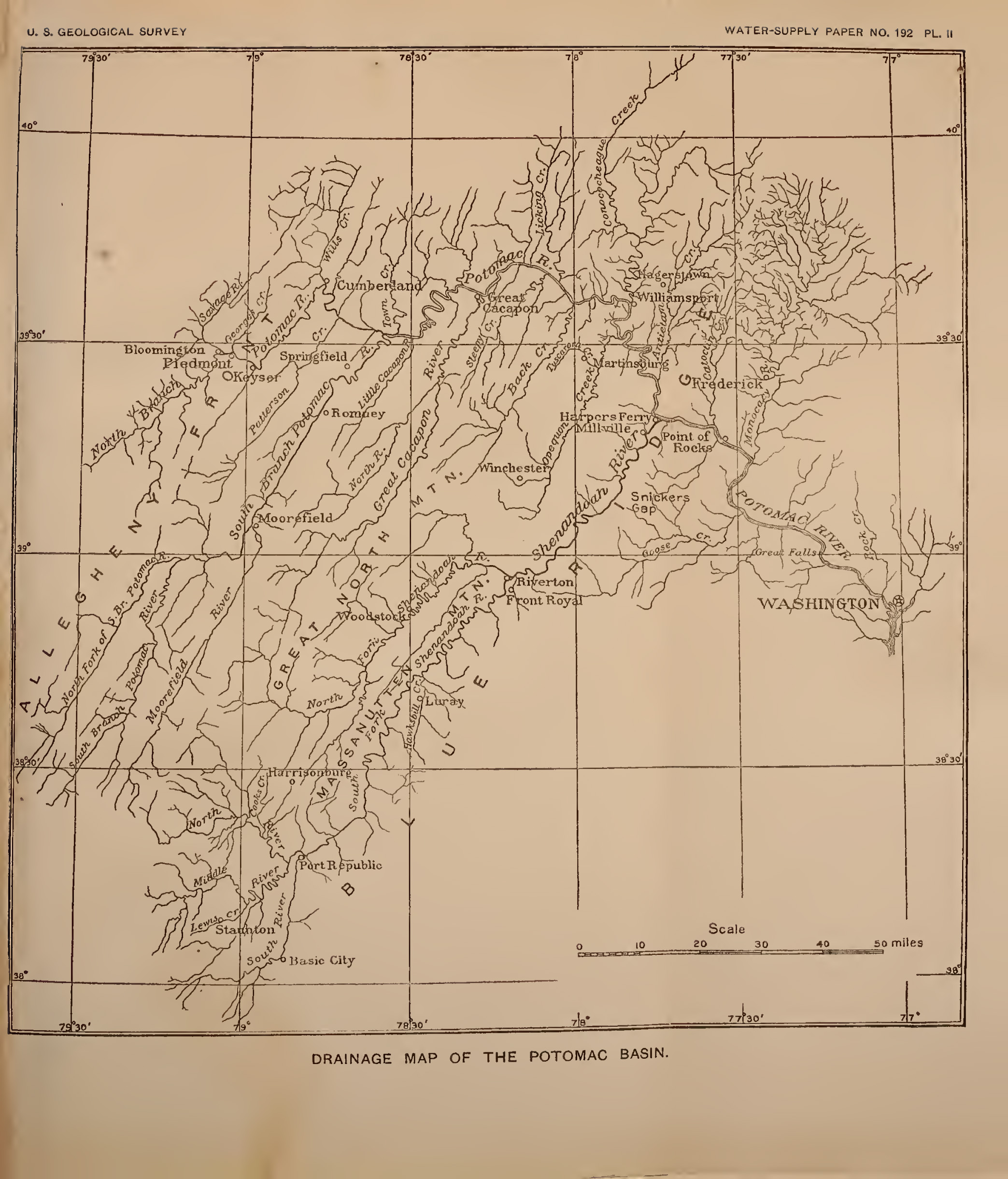 Map of Potomac River Watershed in West Virginia, Virginia, Pennsylvania, and Maryland taken from The Potomac River Basin. Washington, DC: Government Printing Office, 1907.